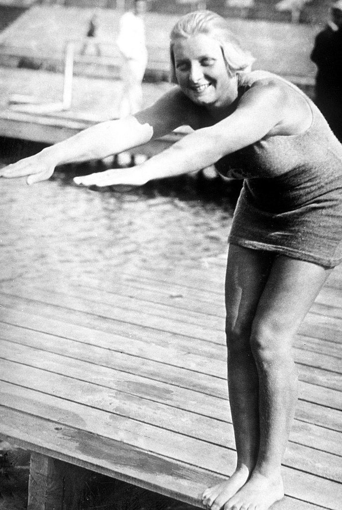 Ethelda Bleibtrey at the Olympic Games in Antwerp, circa August 1920.